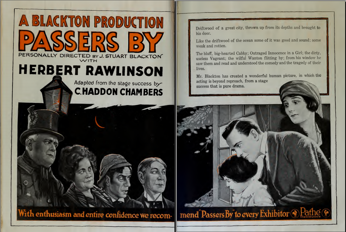 Herbert Rawlinson in Passers By (1920), a film directed by J. Stuart Blackton.